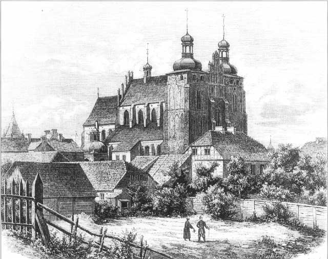 Włocławek's Cathedral in 1863, view from the estuary of Zgłowiączka river.